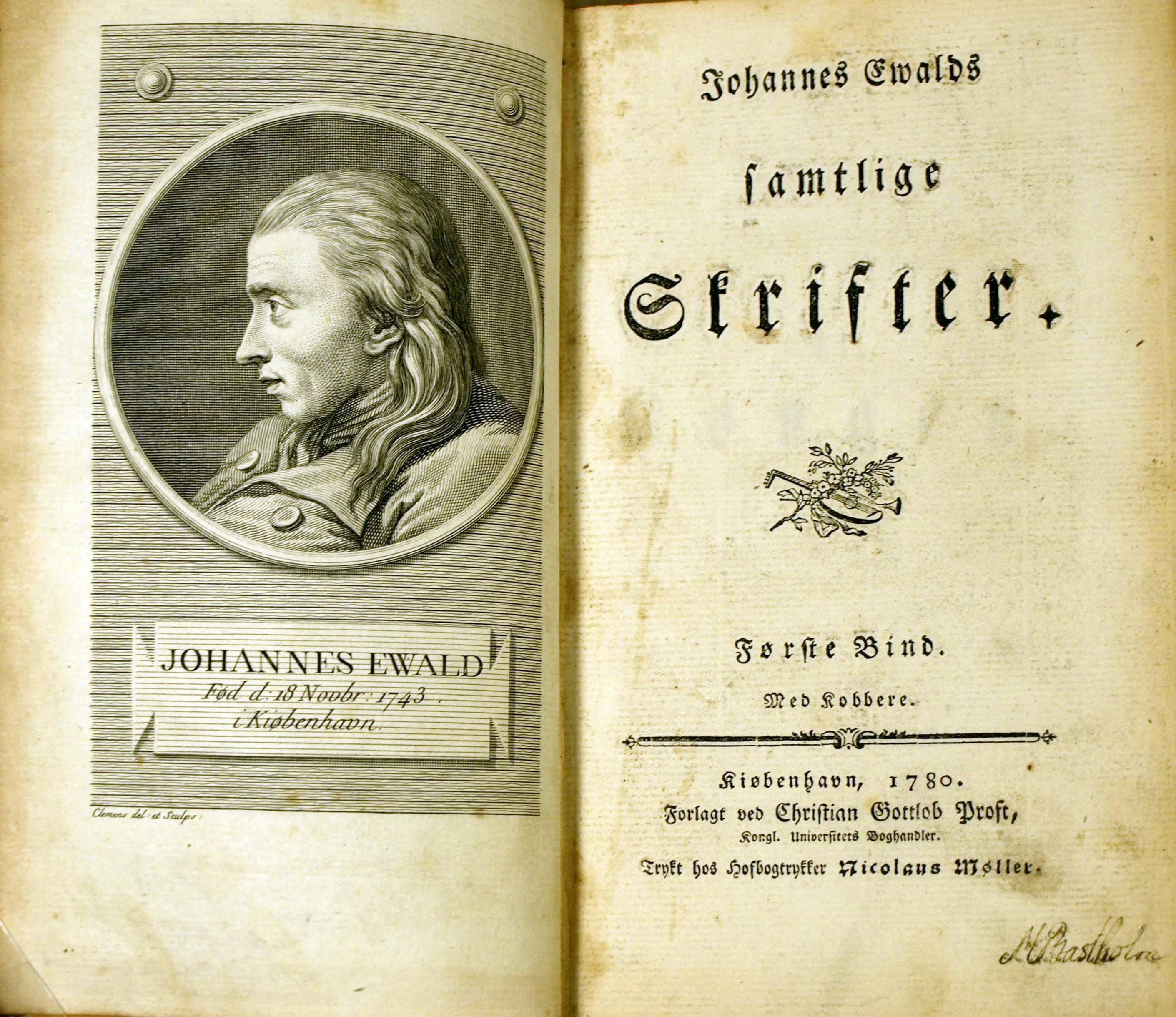 Johannes Ewalds "Samtlige Skrivter" bind 1 fra 1780.